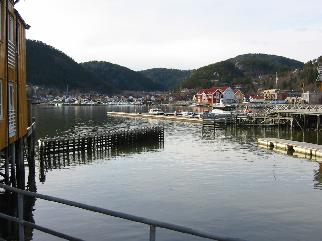 Part of the waterfront in Namsos, Norway. The fjord is Namsenfjord. April 16 2006. Picture taken by Orcaborealis.